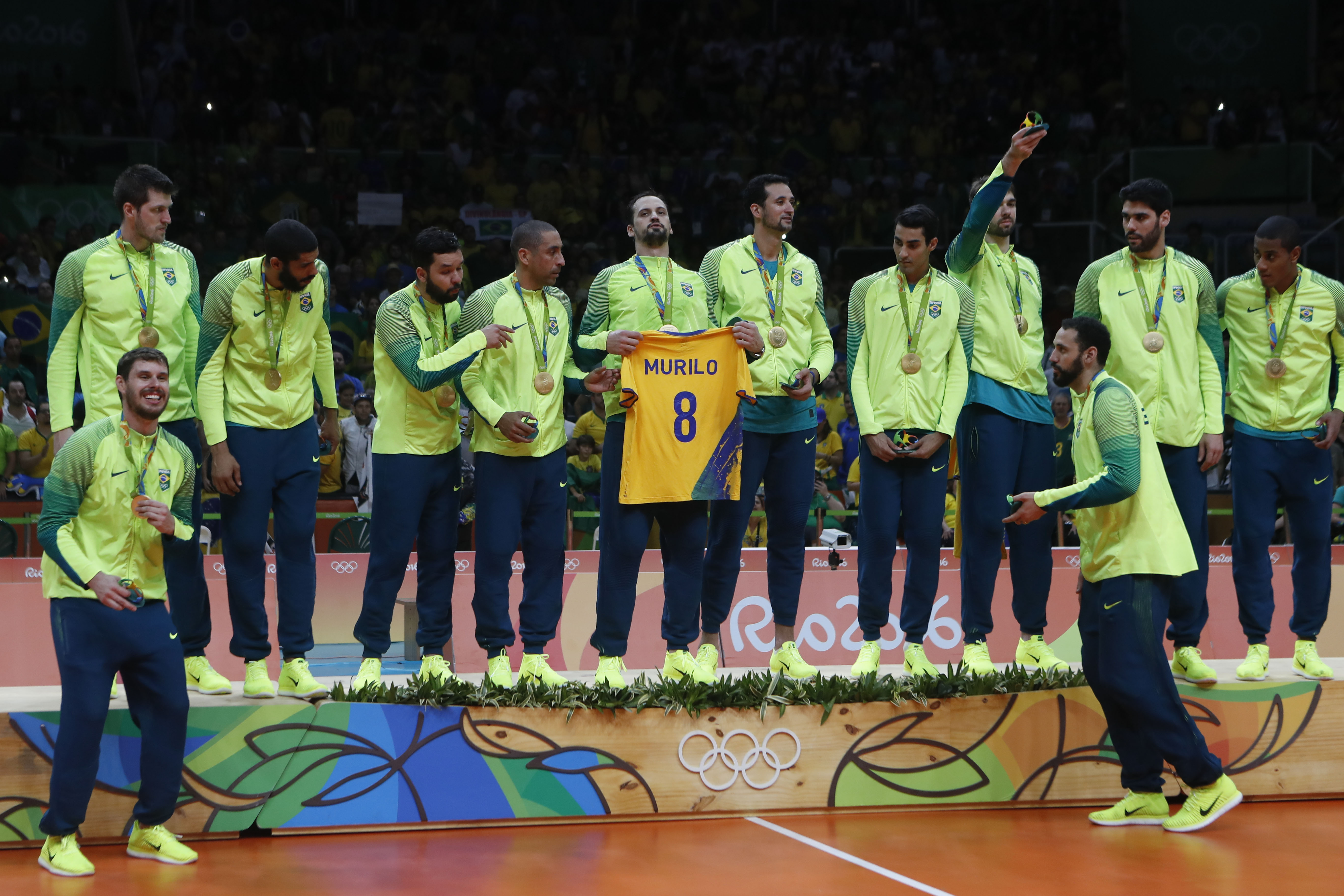 Rio de Janeiro - Seleção brasileira de vôlei ganha medalha de ouro ao vencer a Itália na final dos Jogos Olímpicos Rio 2016 no Maracanãzinho (Fernando Frazão/Agência Brasil)